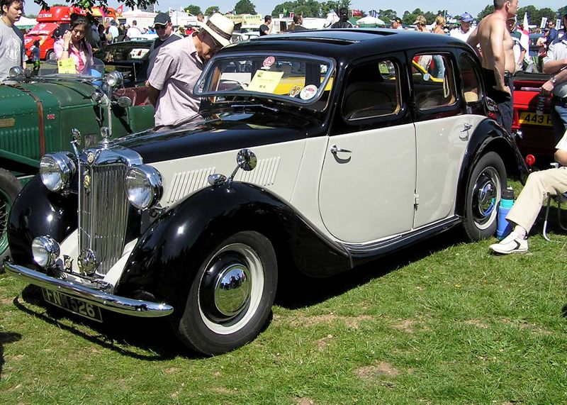 1947 MG Y-Type YA at Bristol Car Show, The Downs, Bristol, England. Taken by Adrian Pingstone in June 2004 and released to the public domain.